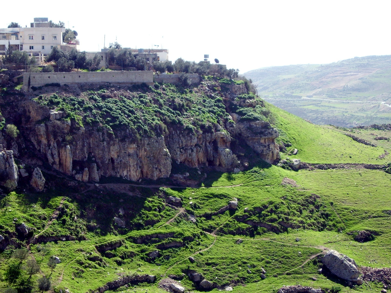 The city of Salt, Jordan is located on hilly plateaus